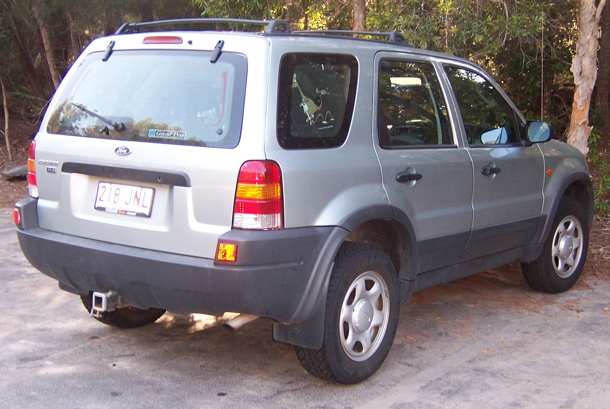 2004 Ford Escape (ZB) XLS wagon. Photographed on Fraser Island, Queensland, Australia. Vehicle registration enquiry resultsJurisdictionQueenslandRegistration218JNLChassis codeJC0YU02ZX41202865 Year of manufacture2004